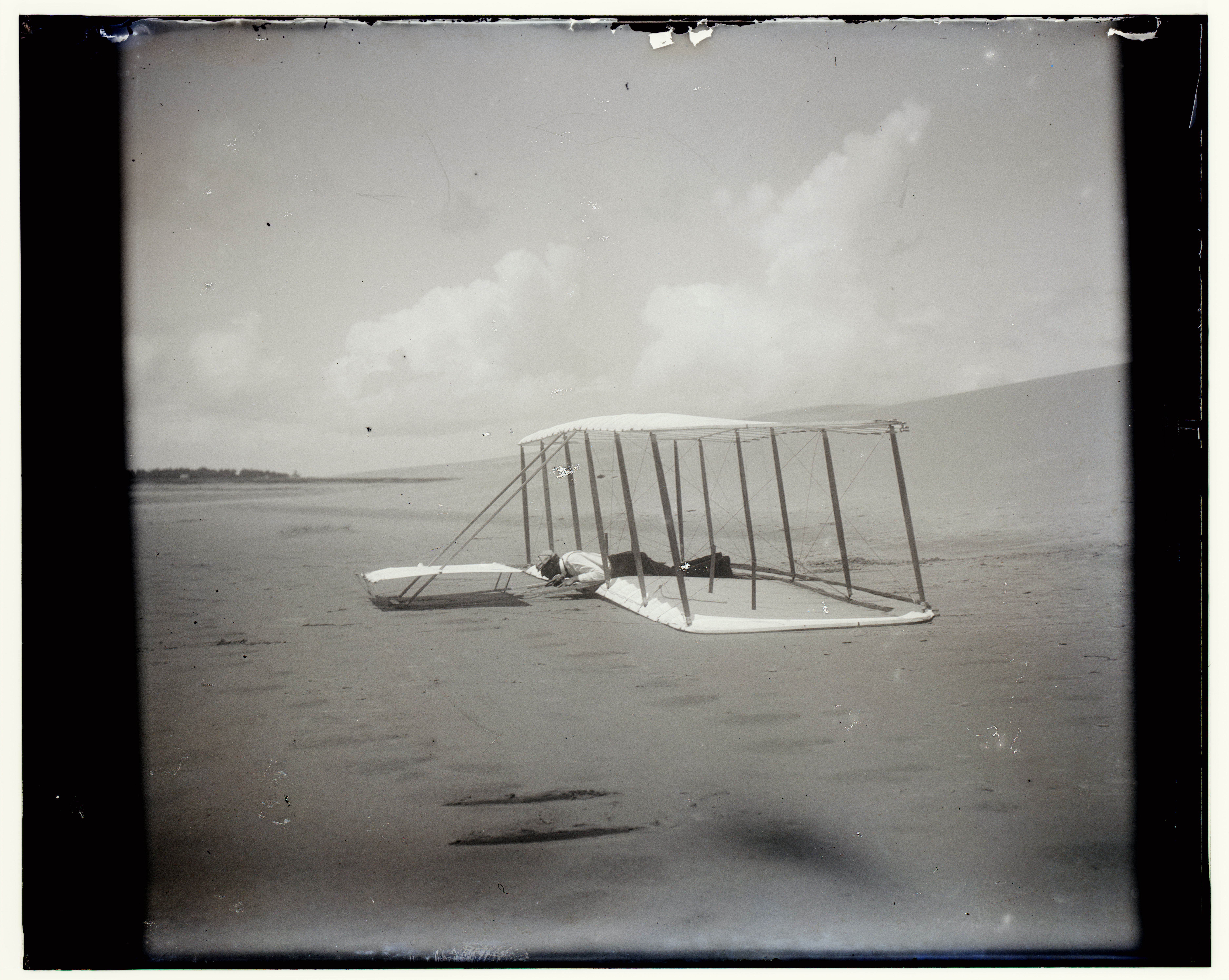 Wilbur Wright in prone position on glider just after landing, its skid marks visible behind it and, in the foreground, skid marks from a previous landing; Kitty Hawk, North Carolina.